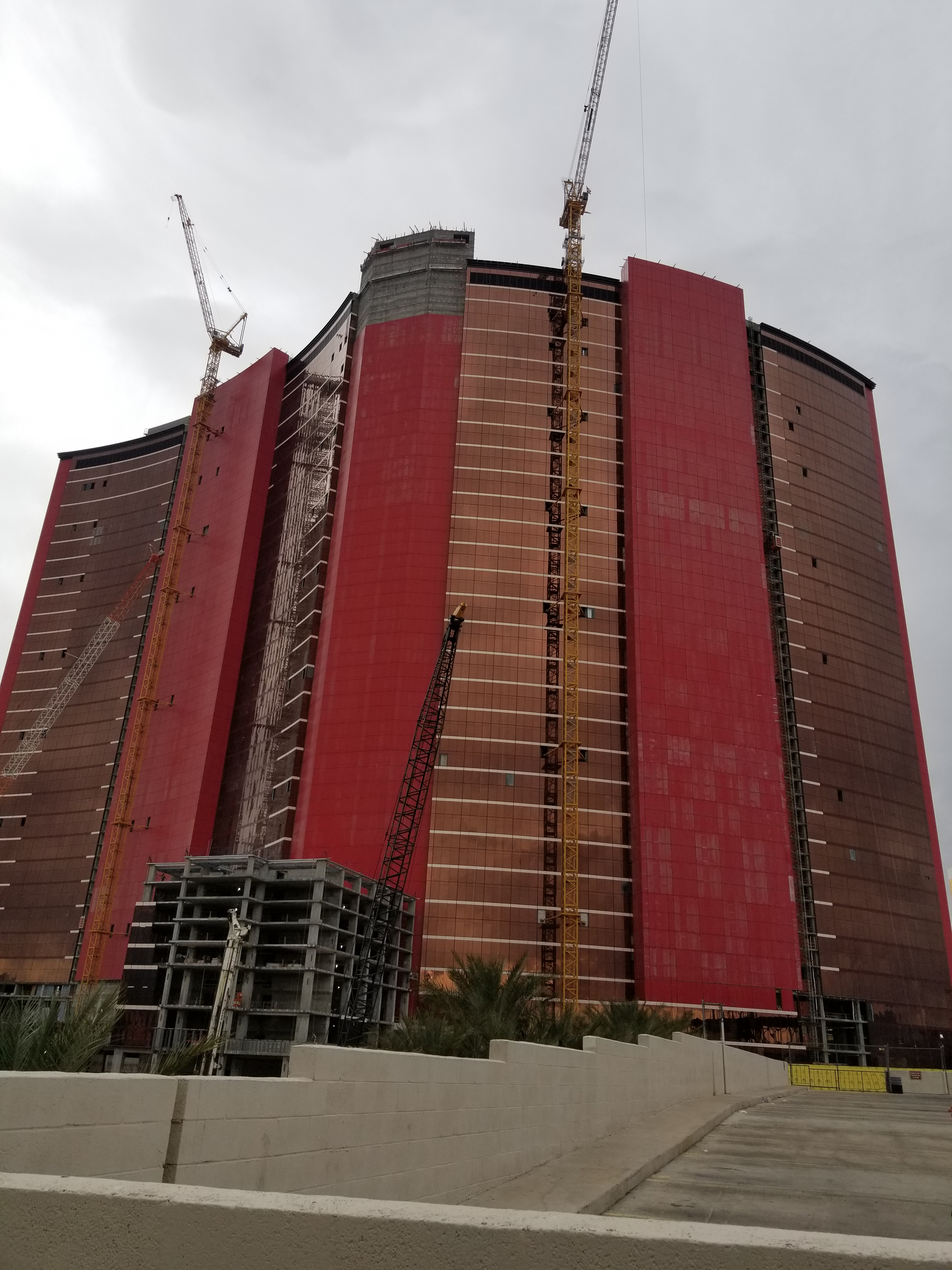 Resorts World Construction during March 2020